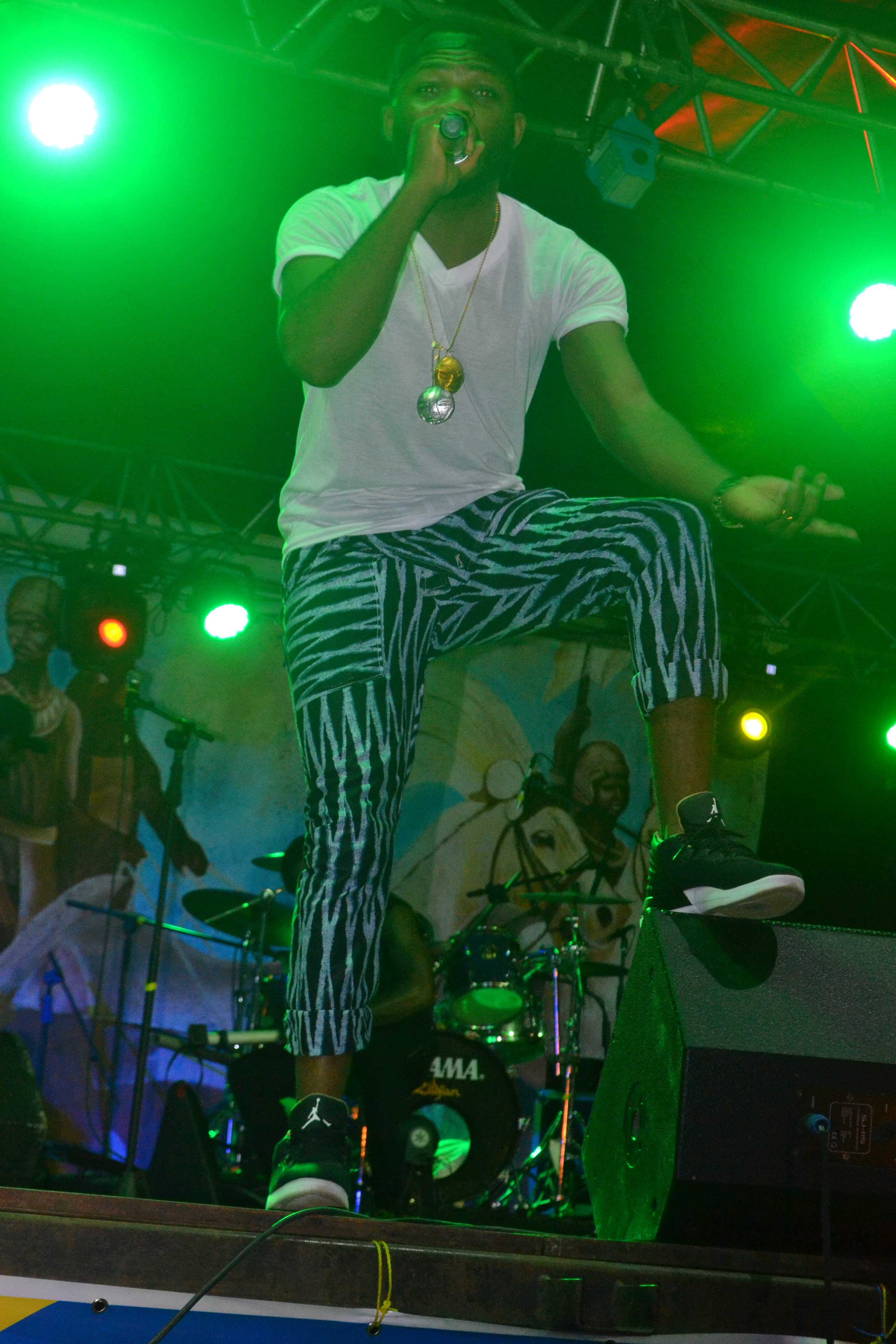 cameroonian singer Magasco, Bamenda Boy